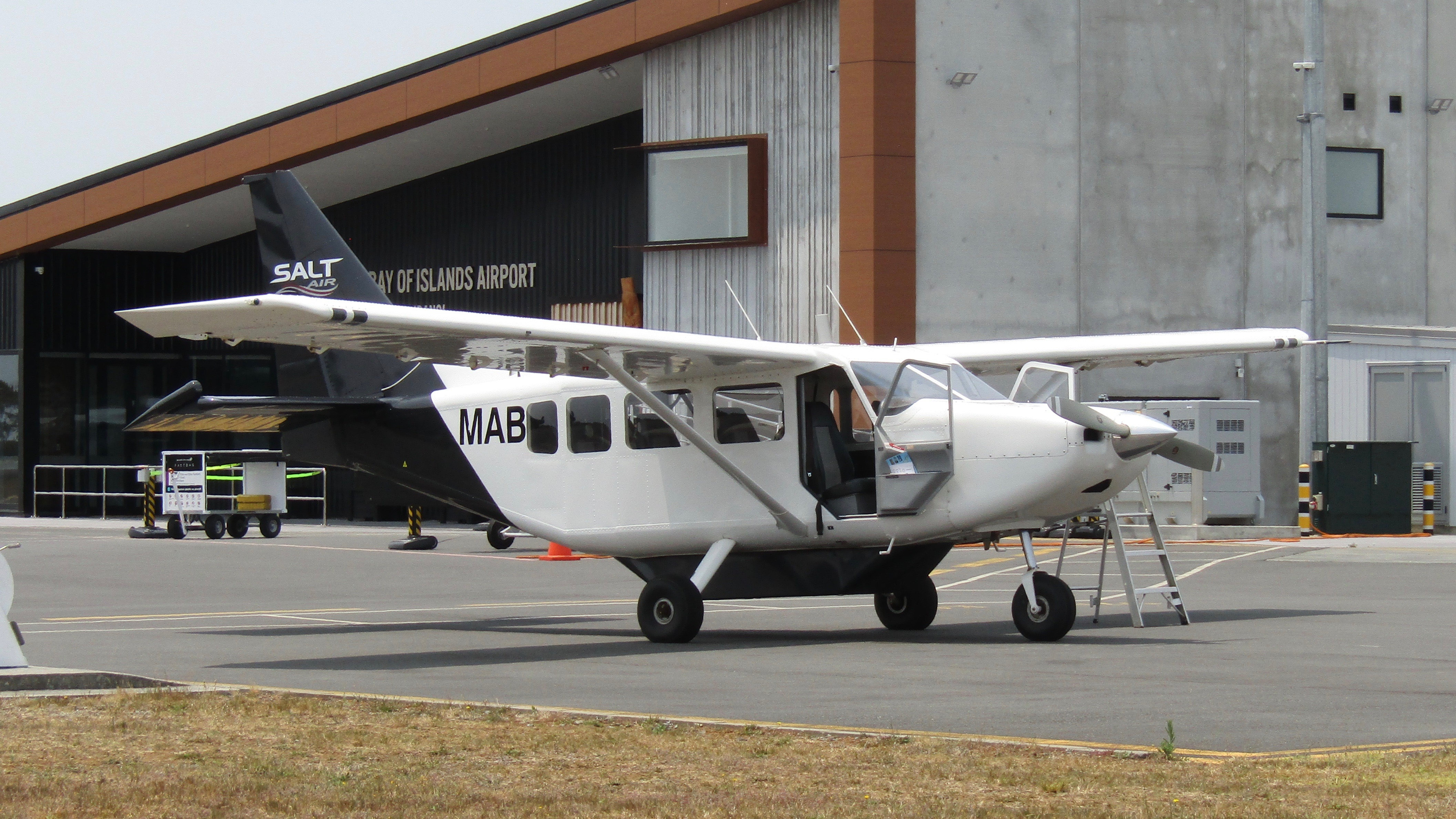 Salt Air's sole Gippsland GA-8 Airvan, ZK-MAB, awaiting passengers for it's next operation to Cape Reinga airstrip as the only airline to operate there. The aircraft has recently been repainted into this livery.